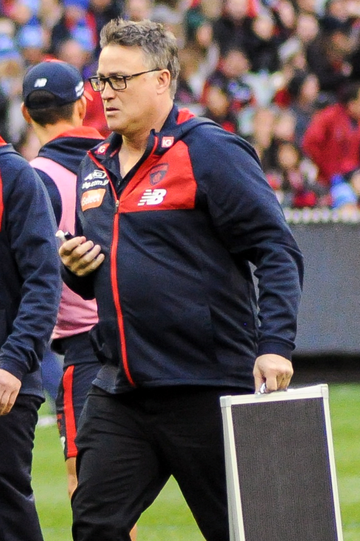 Todd Viney during the AFL round twelve match between Melbourne and Collingwood on 12 June 2017 at the Melbourne Cricket Ground in Melbourne, Victoria.